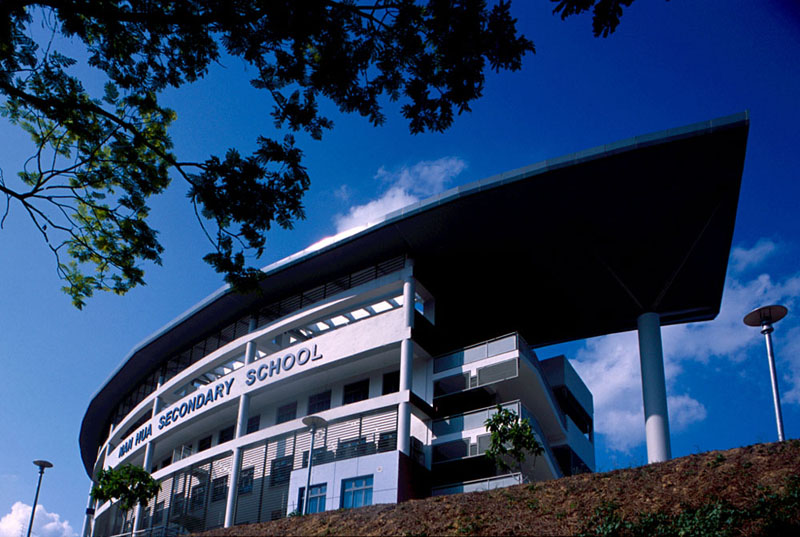 Facade of Nan Hua Secondary School in 2004. Nan Hua Secondary School is a government school in Singapore. It was renamed as Nan Hua High School in 2006.